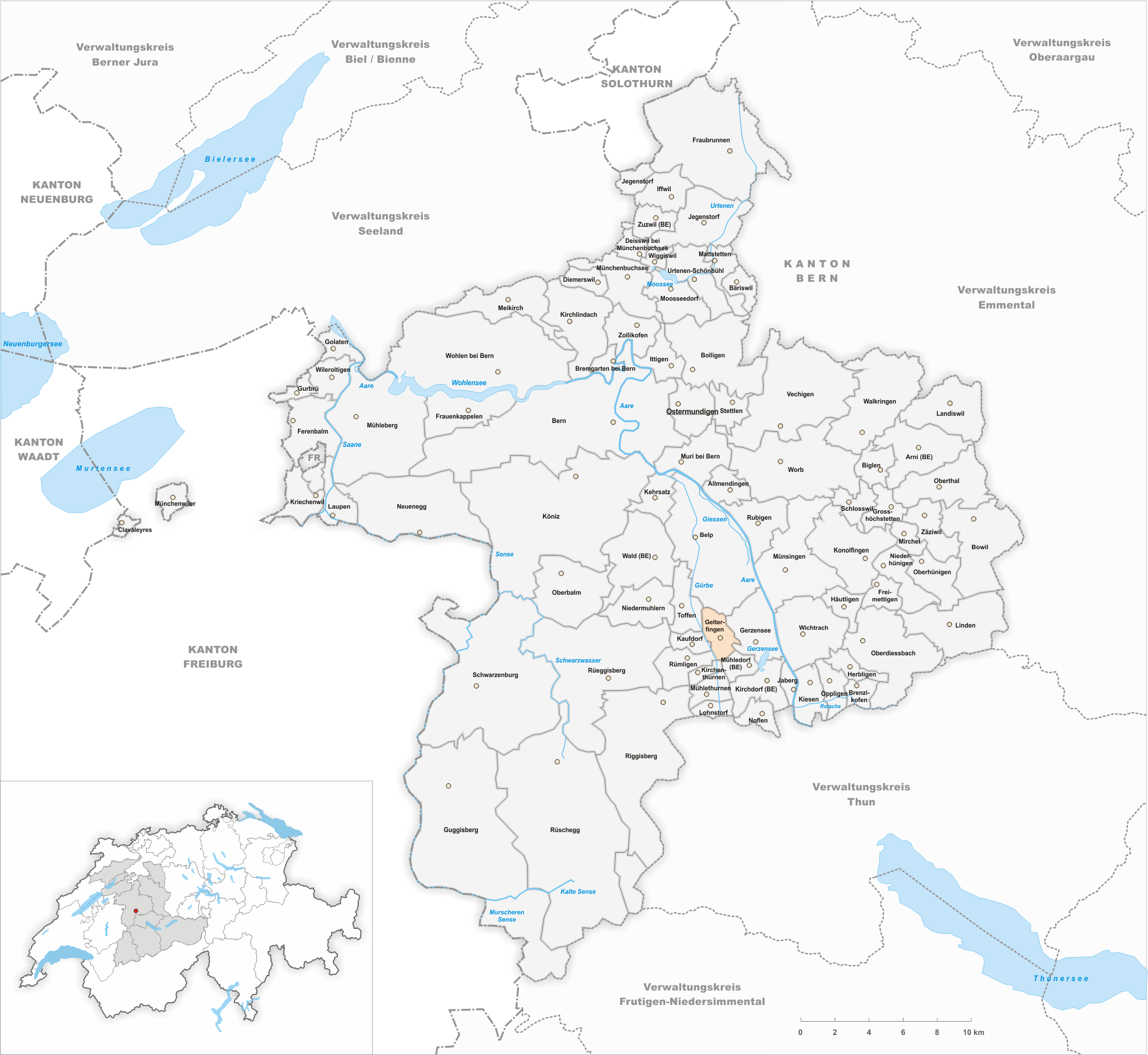 Municipality Gelterfingen